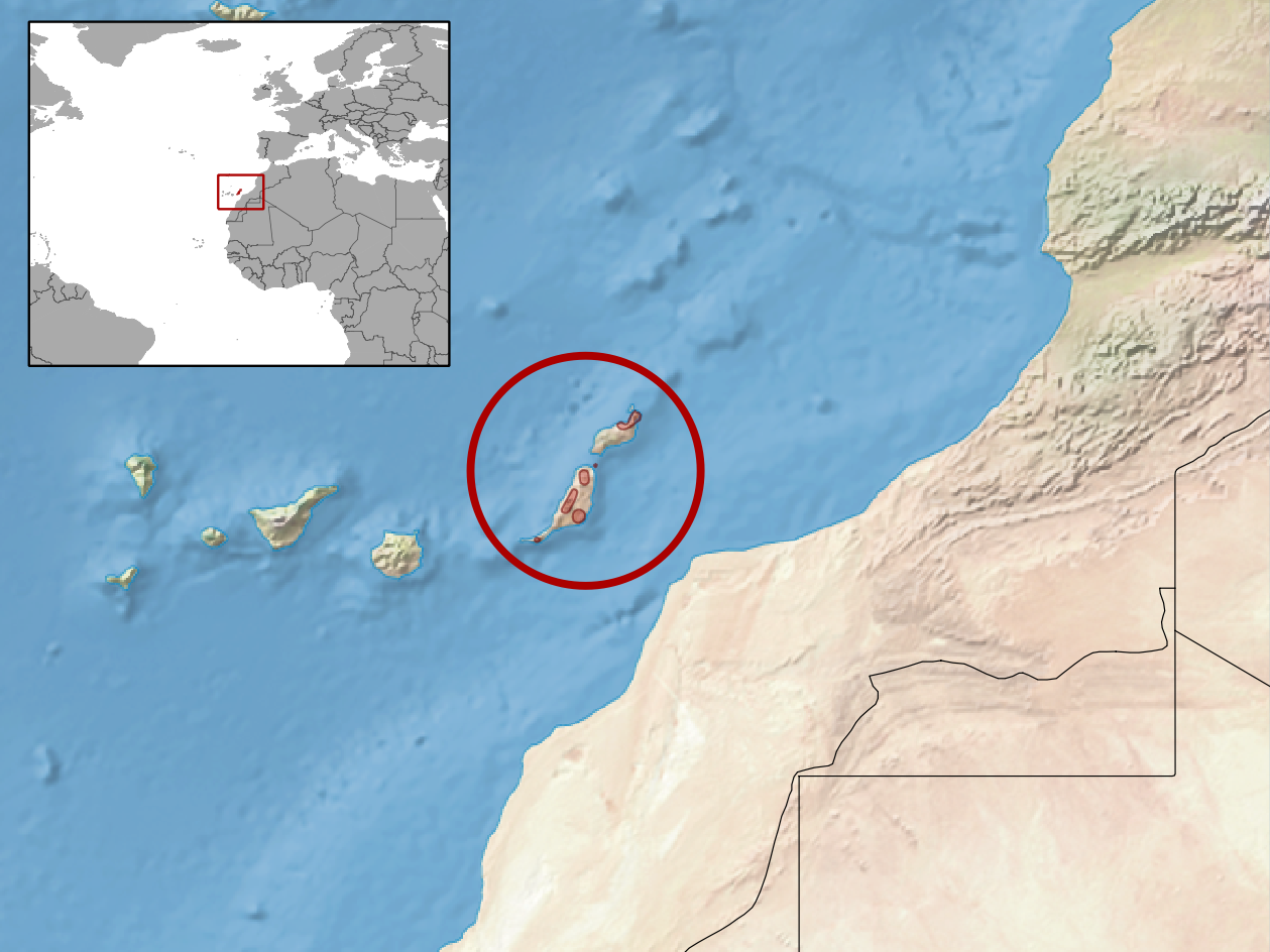 geographic distribution of Chalcides simonyi (IUCN) syn. Chalcides polylepis occidentalis (RDB)